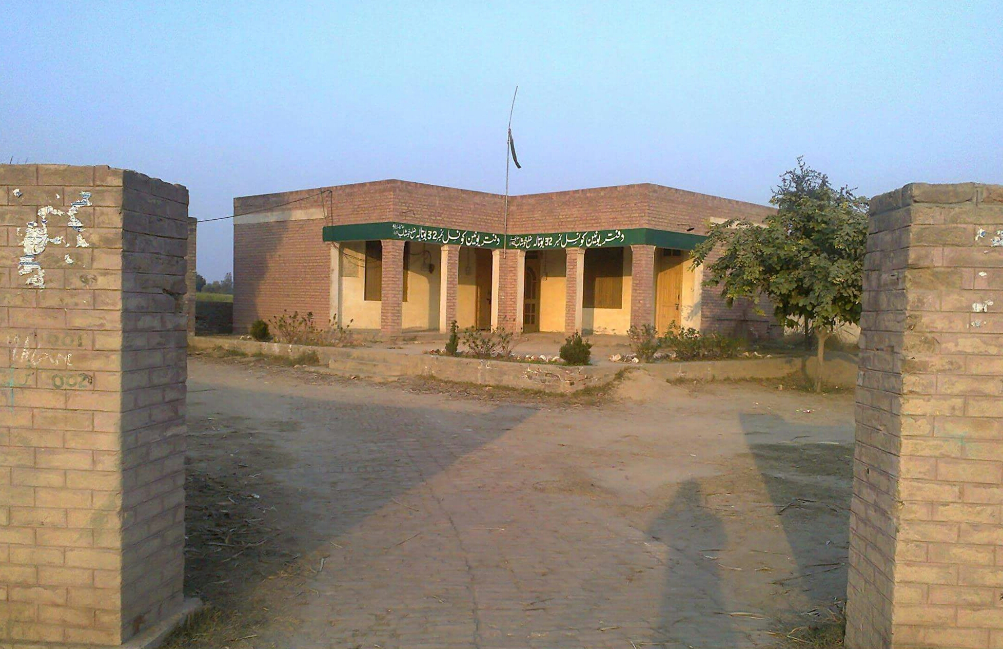 I also Uploaded this Photo on Botala Facebook Page & on website